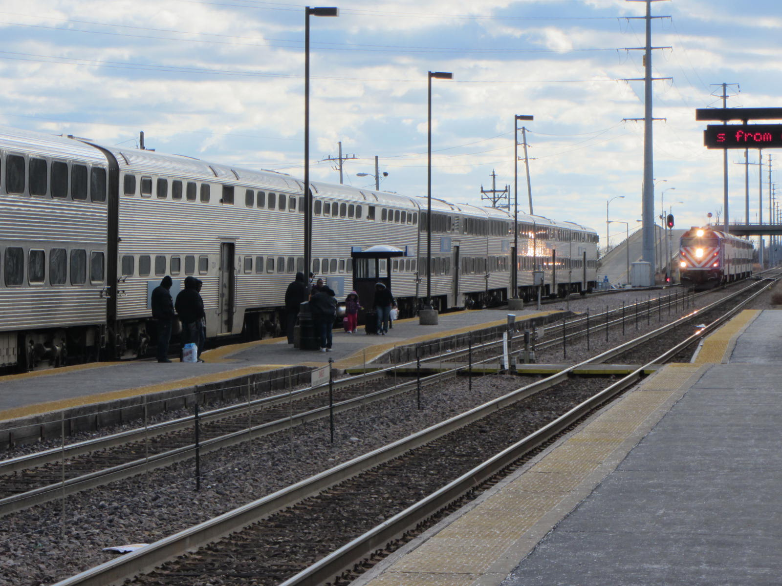 59 Metra Union Pacific, Waukegan, Illinois